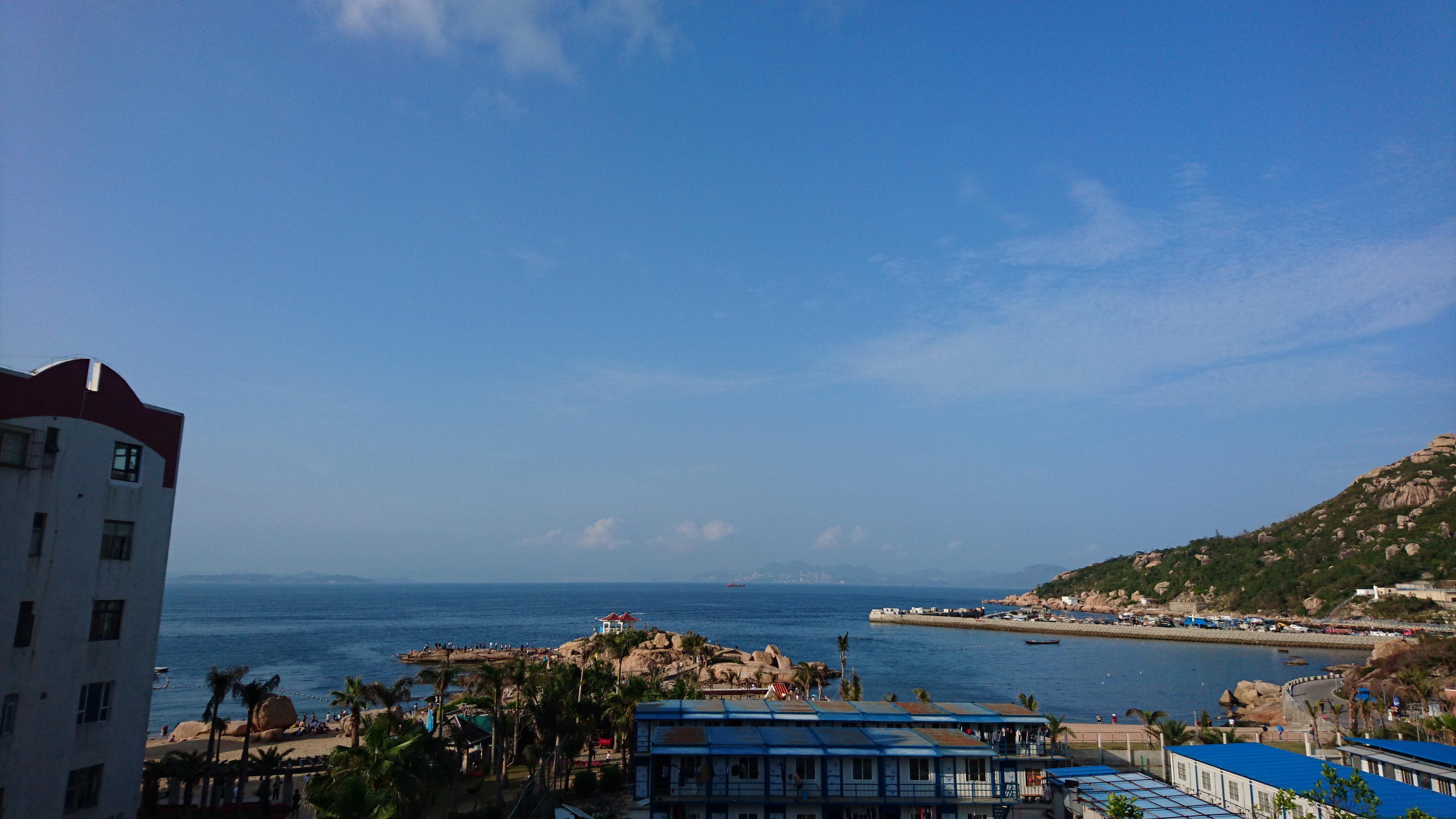 Seascape of Wai Lingding Island in Zhuhai, Guangdong, China.